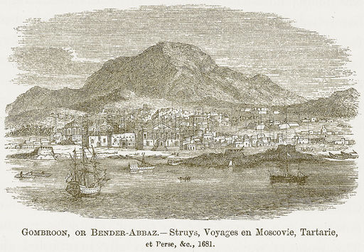 Gombroon, or Bander-Abbas.--Struys, Voyages en Moscovie, Tartarie, et Perse,&c., 1681. Illustration for A Comprehensive History of India by Henry Beveridge (Blackie, 1862). Bandar Abbas, formerly known as Cambarão and Porto Comorão to Portuguese traders, as Gombroon to English traders and as Gamrun or Gumrun to Dutch merchants, is a port city and capital of Hormozgān Province on the southern coast of Iran, on the Persian Gulf.